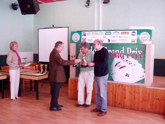 Fogaras and Gal, winners Bridge Grand Prix Košice